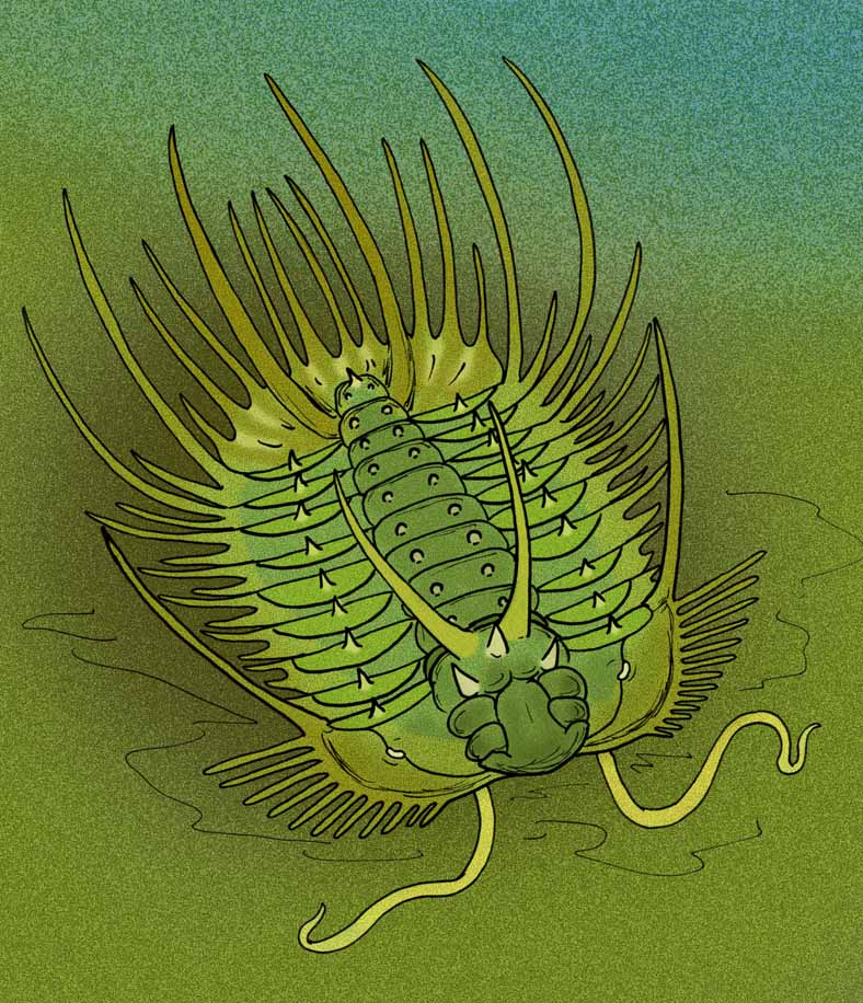 Reconstruction of the odontopleurid trilobite, Odontopleura ovata, of Silurian Bohemia and Sweden.